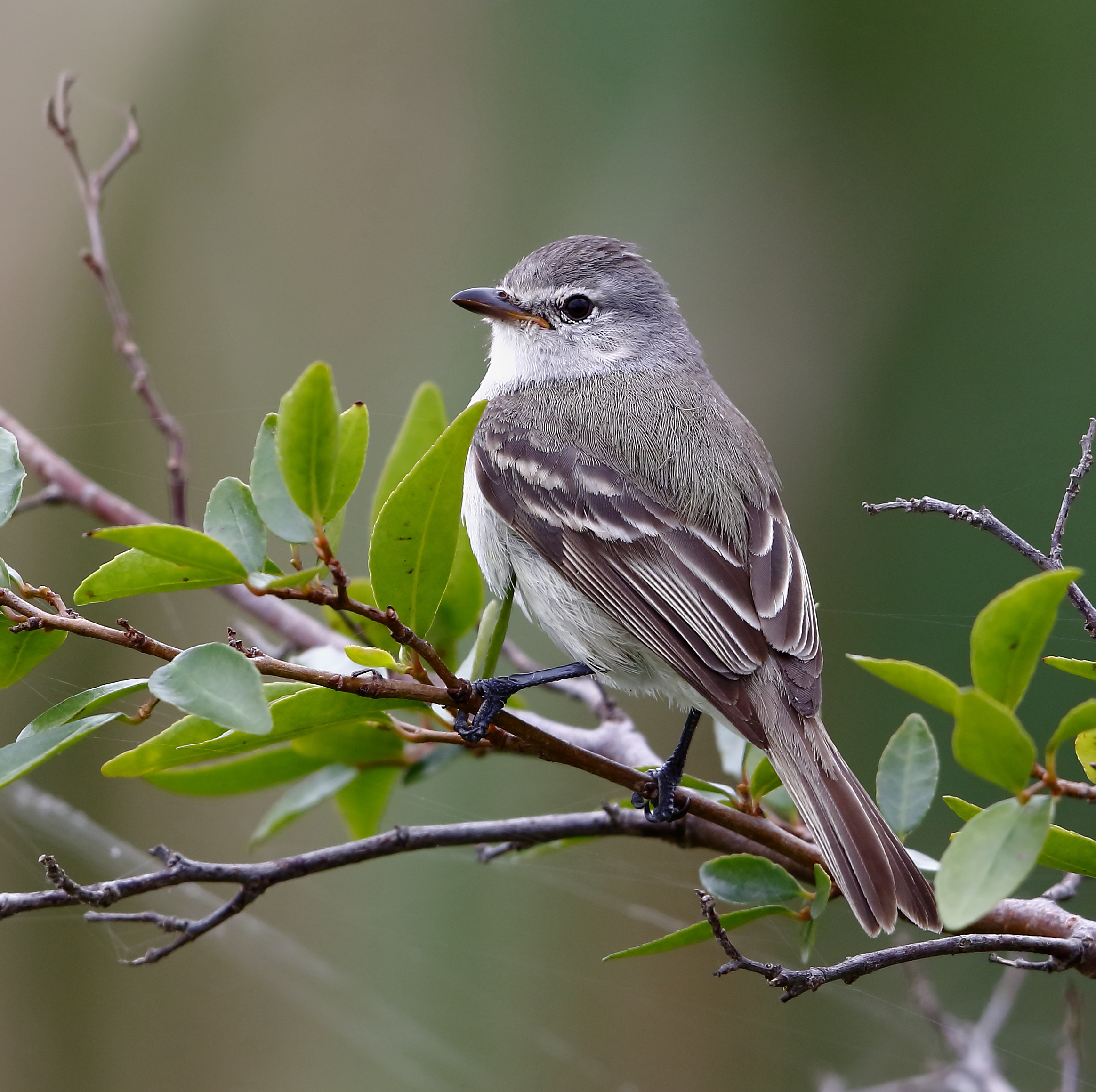 Southern beardless tyrannulet at Iberá marshes, Corrientes, Argentina